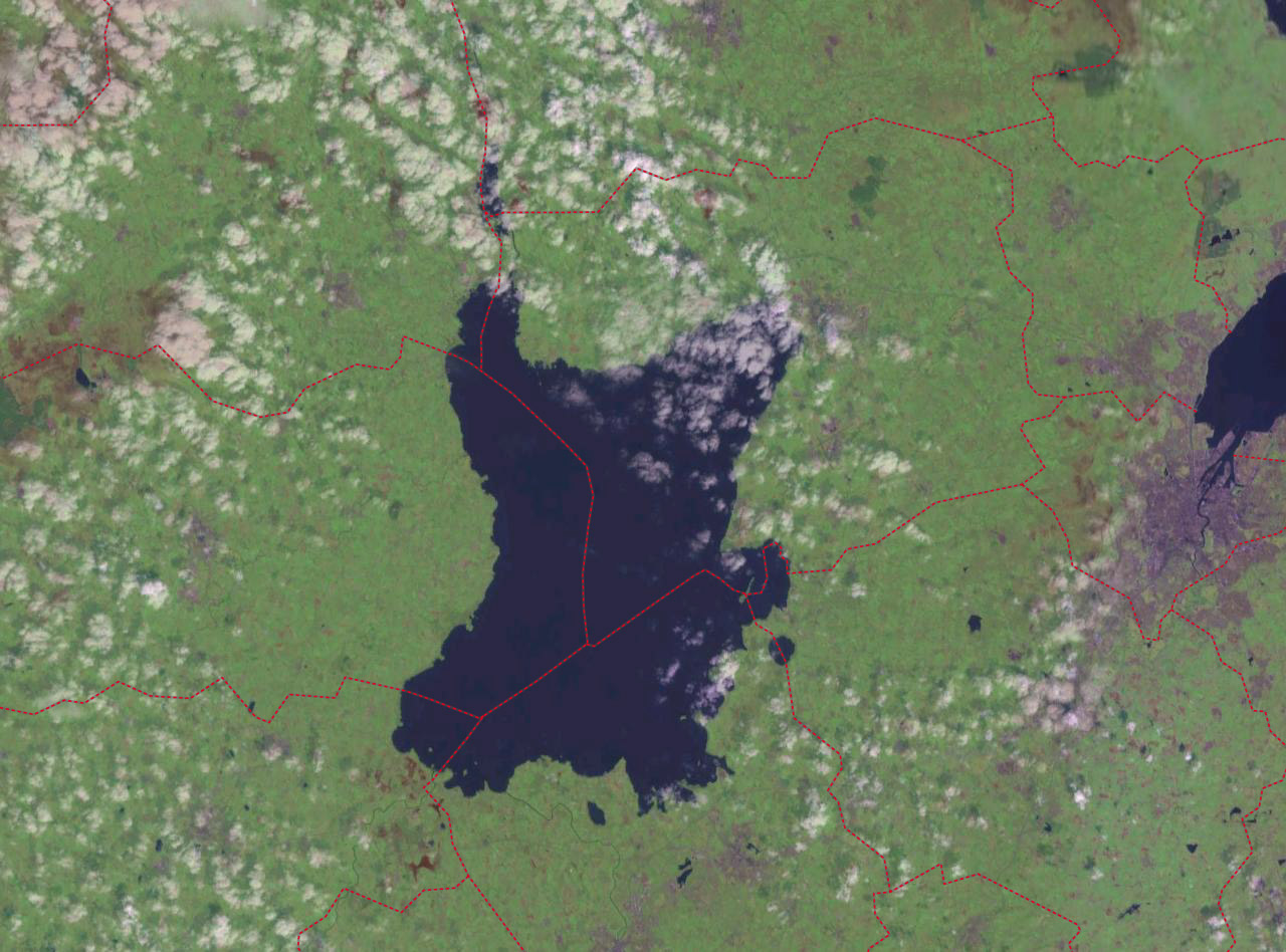 Lough Neagh in Northern Ireland with administrative boundaries